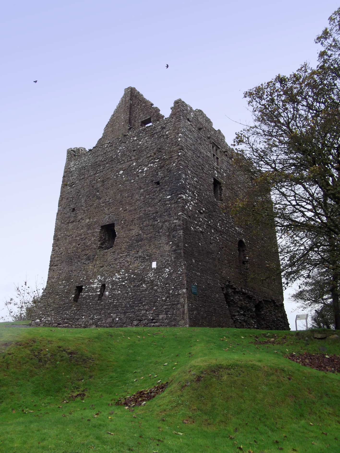 Dunmore Castle